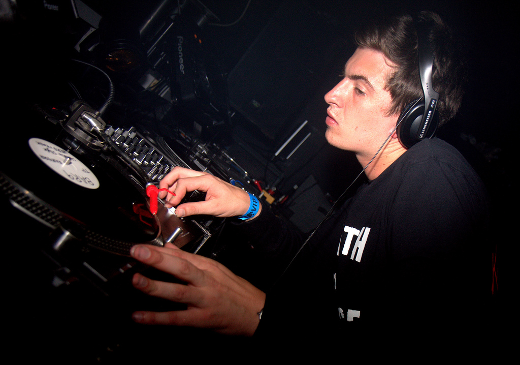 Skream playing at Metropolis Leeds.